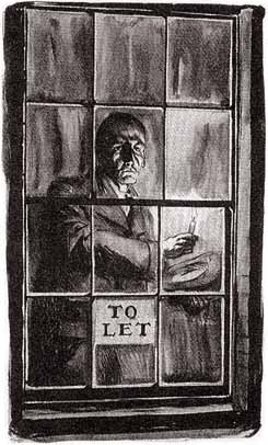 Arthur Conan Doyle, The Adventure of the Red Circle (1911), Illustration by H. M. Brock, in The Strand Magazine